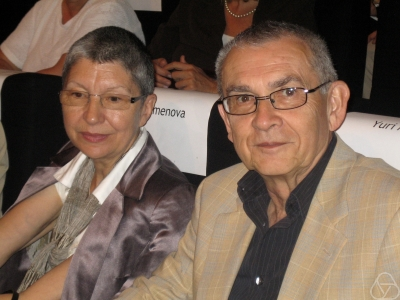 Mathematician Yuri Manin, with Ksenia Semenova, at the ICM 2006 in Madrid.